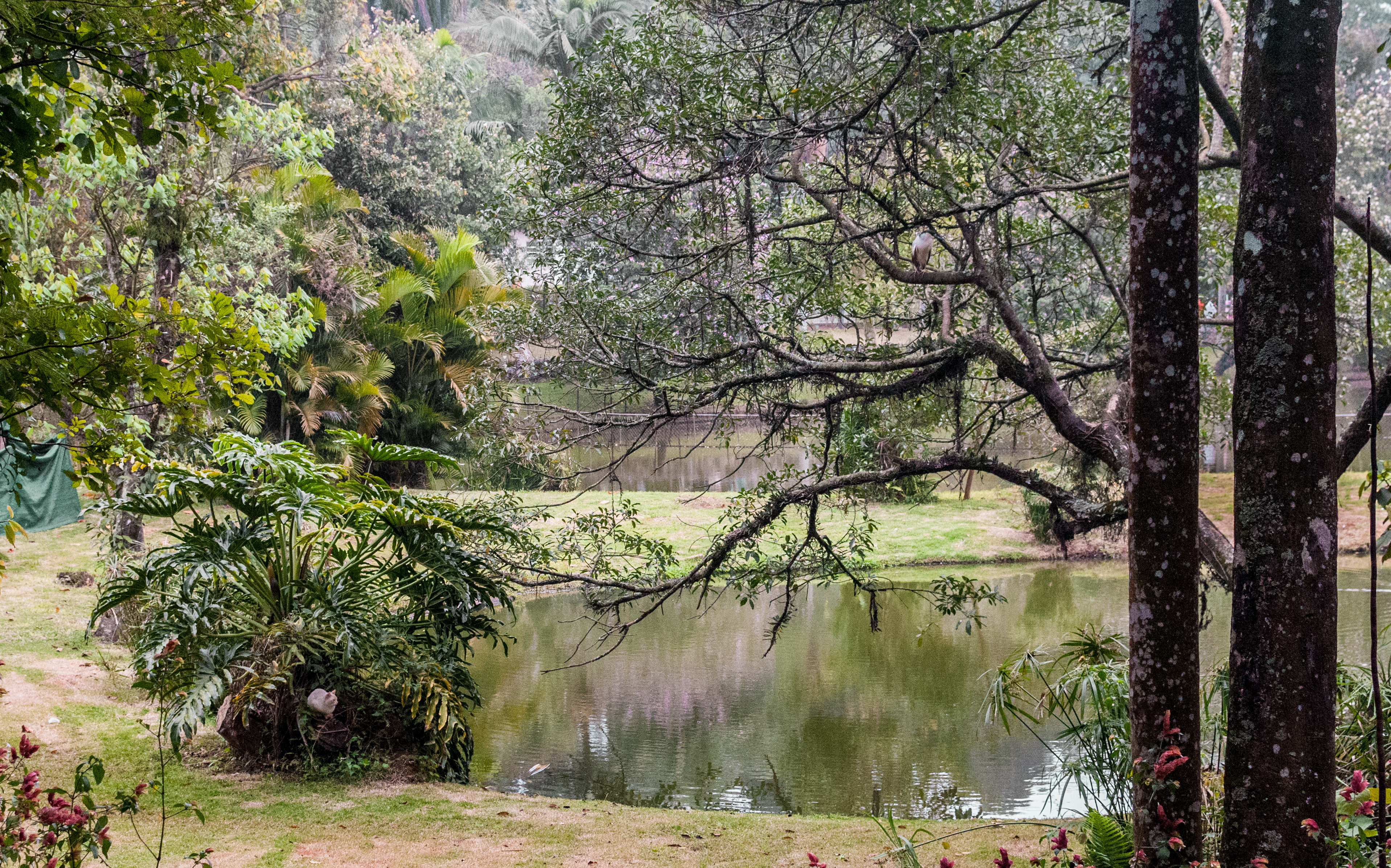 São Paulo Zoo